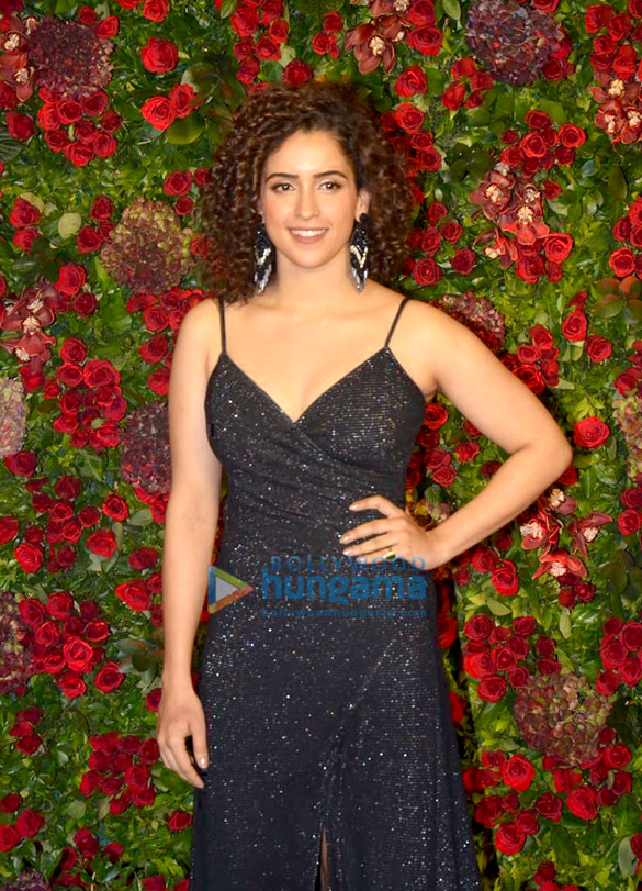 Sanya Malhotra at Deepika and Ranveer- Mumbai reception 2018